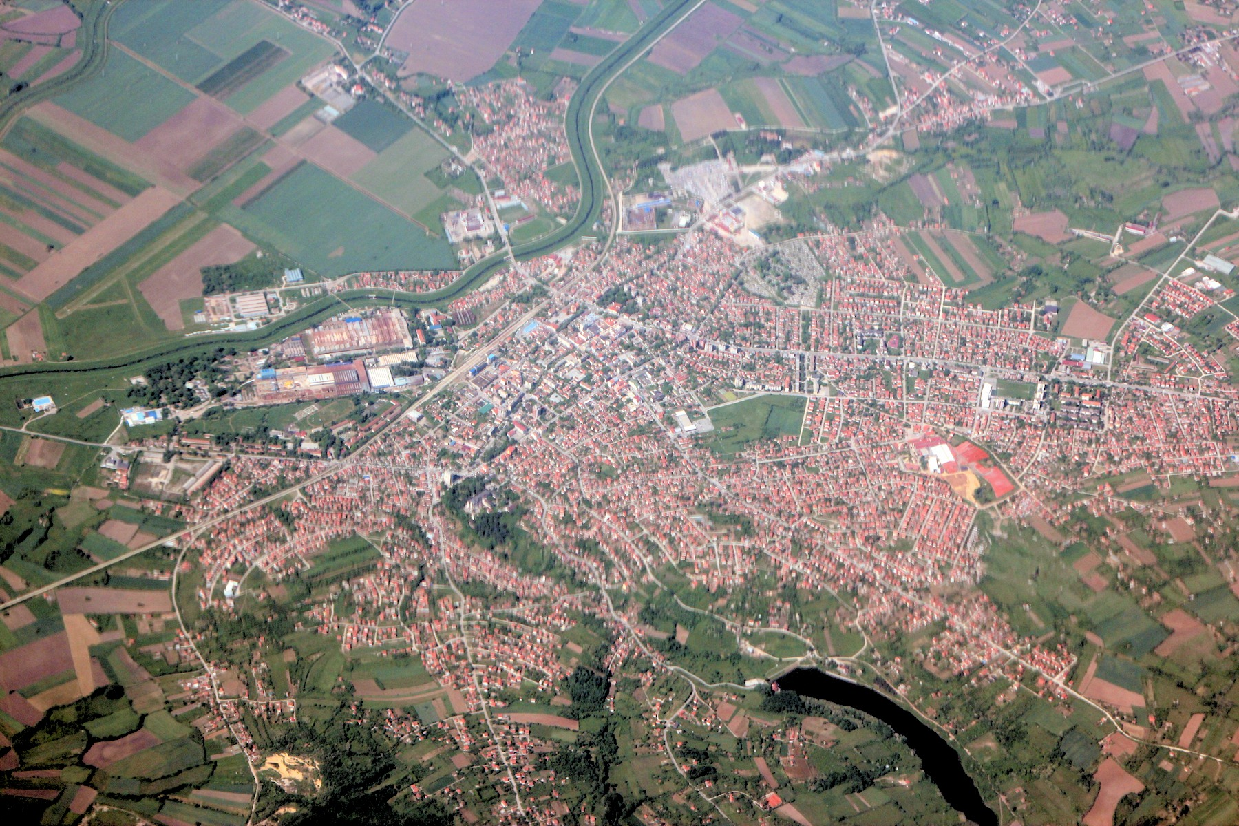 Smederevska Palanka, Serbia.